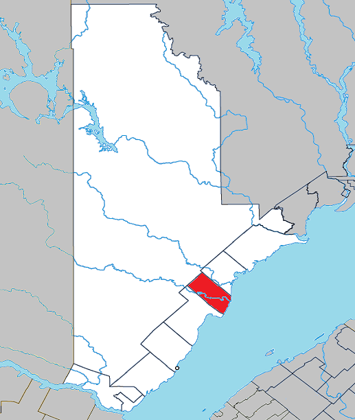 Location of Portneuf-sur-Mer, Quebec within La Haute-Côte-Nord Regional County Municipality.